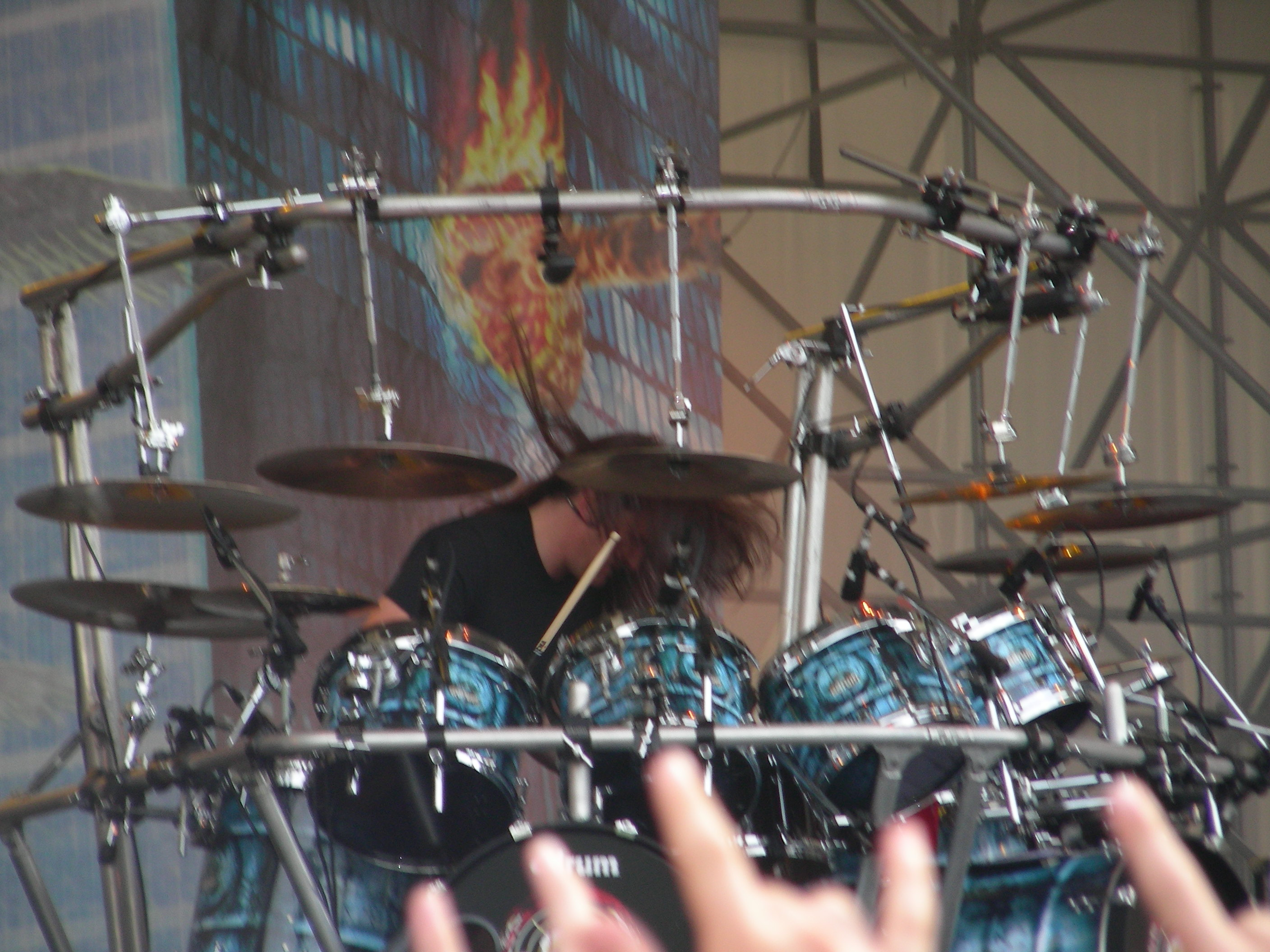 I Megadeth al Gods of Metal 2007